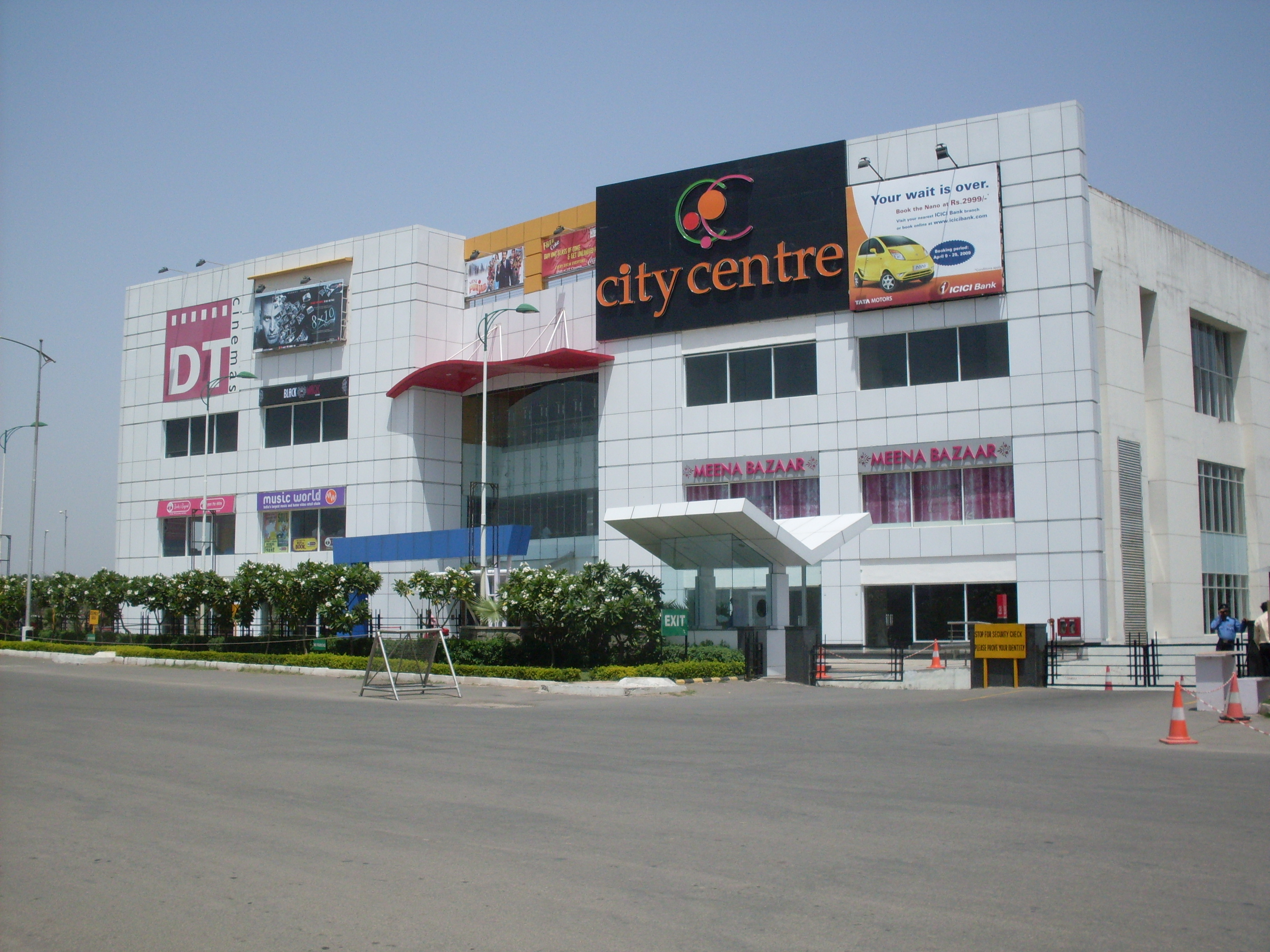 Shot of IT park at Chandigarh